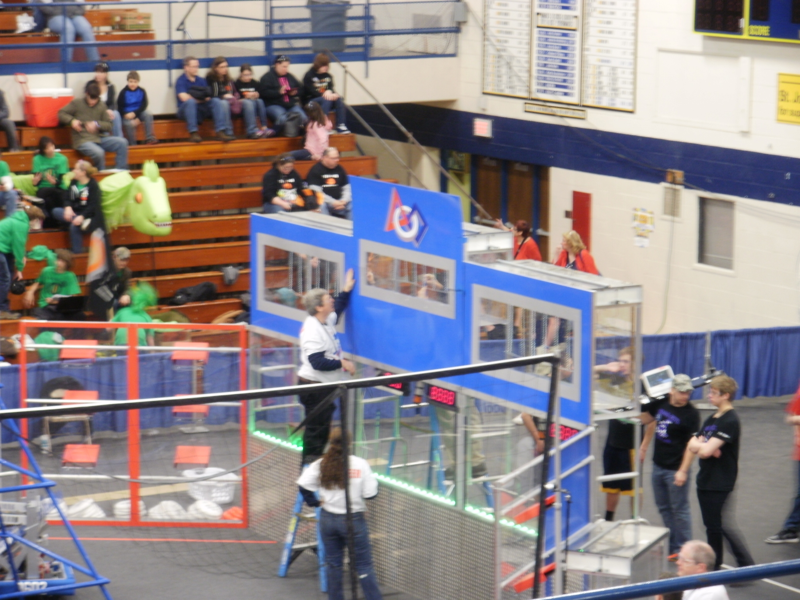 The blue goals and red protected feeder station of the Ultimate Acent playing field. At the St. Joseph district event.